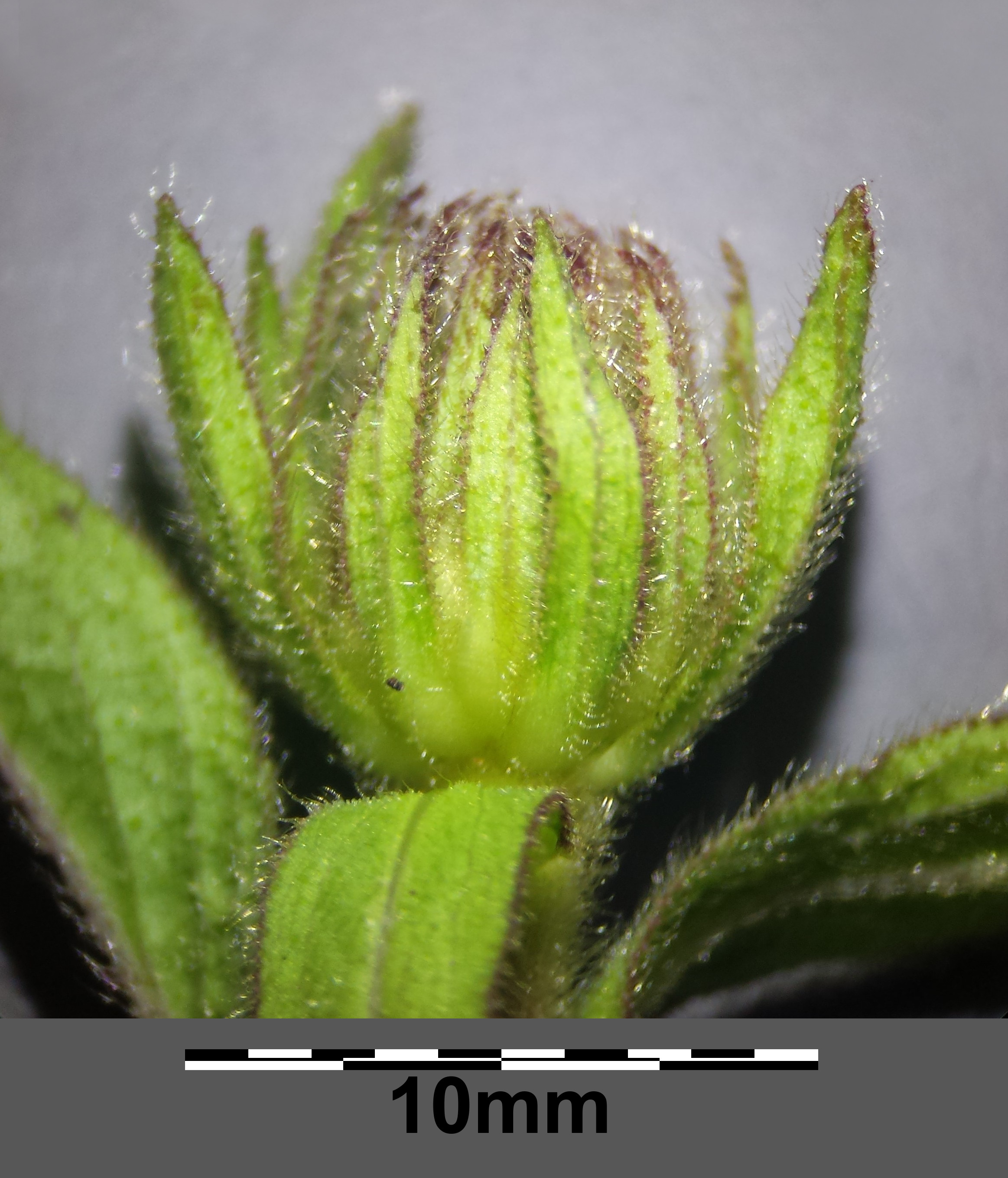 Flower basket with involucral bracts Taxonym: Inula hirta ss Fischer et al. EfÖLS 2008 ISBN 978-3-85474-187-9 Location: semi-dry grasslands and wine yards to the north of Oberthern, municipality Heldenberg, district Hollabrunn, Lower Austria - ca. 300 m ü. A. Habitat: border of a shrubbery